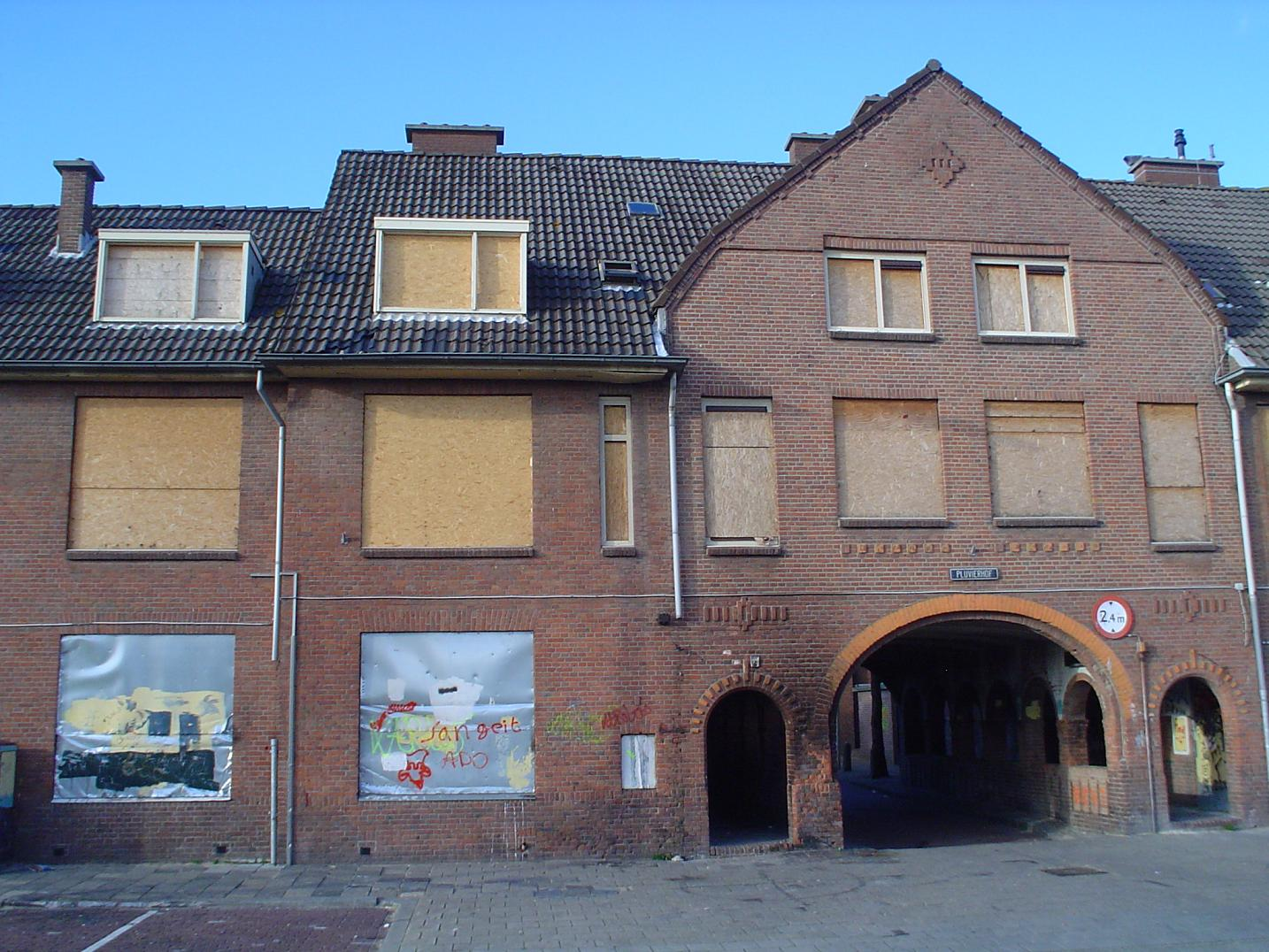 Entrance the the Pluvierhof; an example of urban decay in Scheveningen, near The Hague, Netherlands.